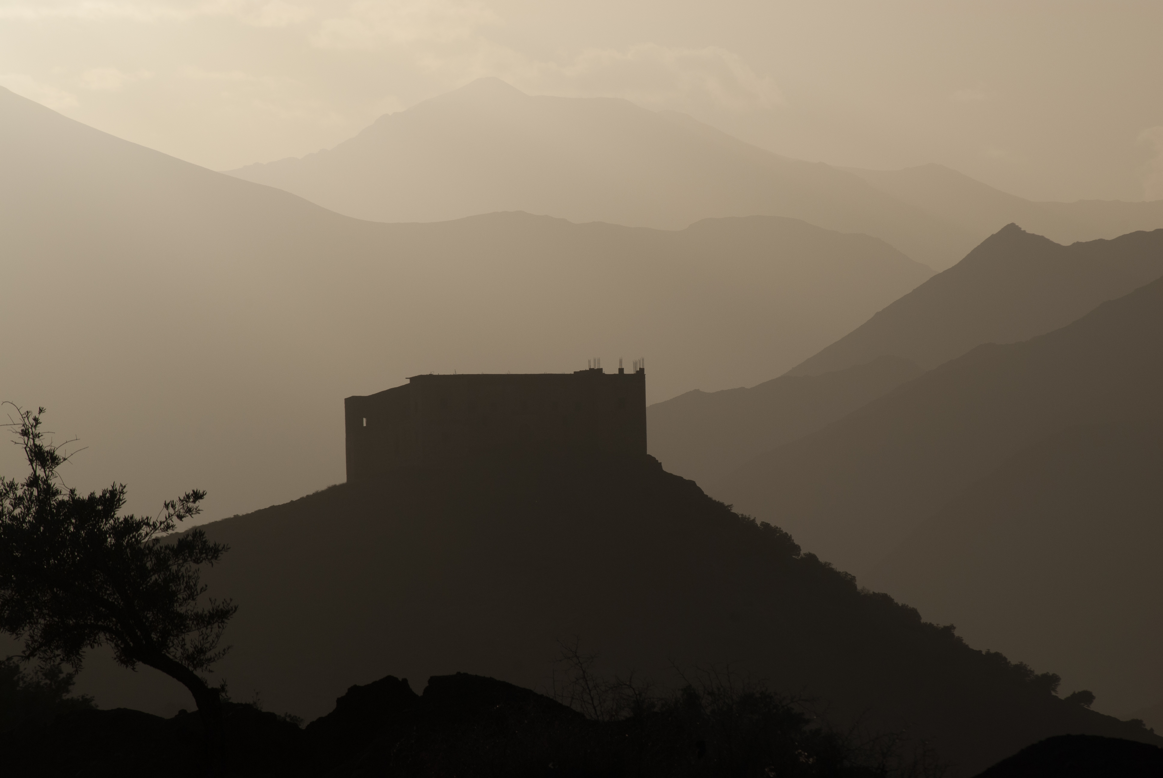 The Kasbah Goundafa in the Nfiss Valley near Ijoukak